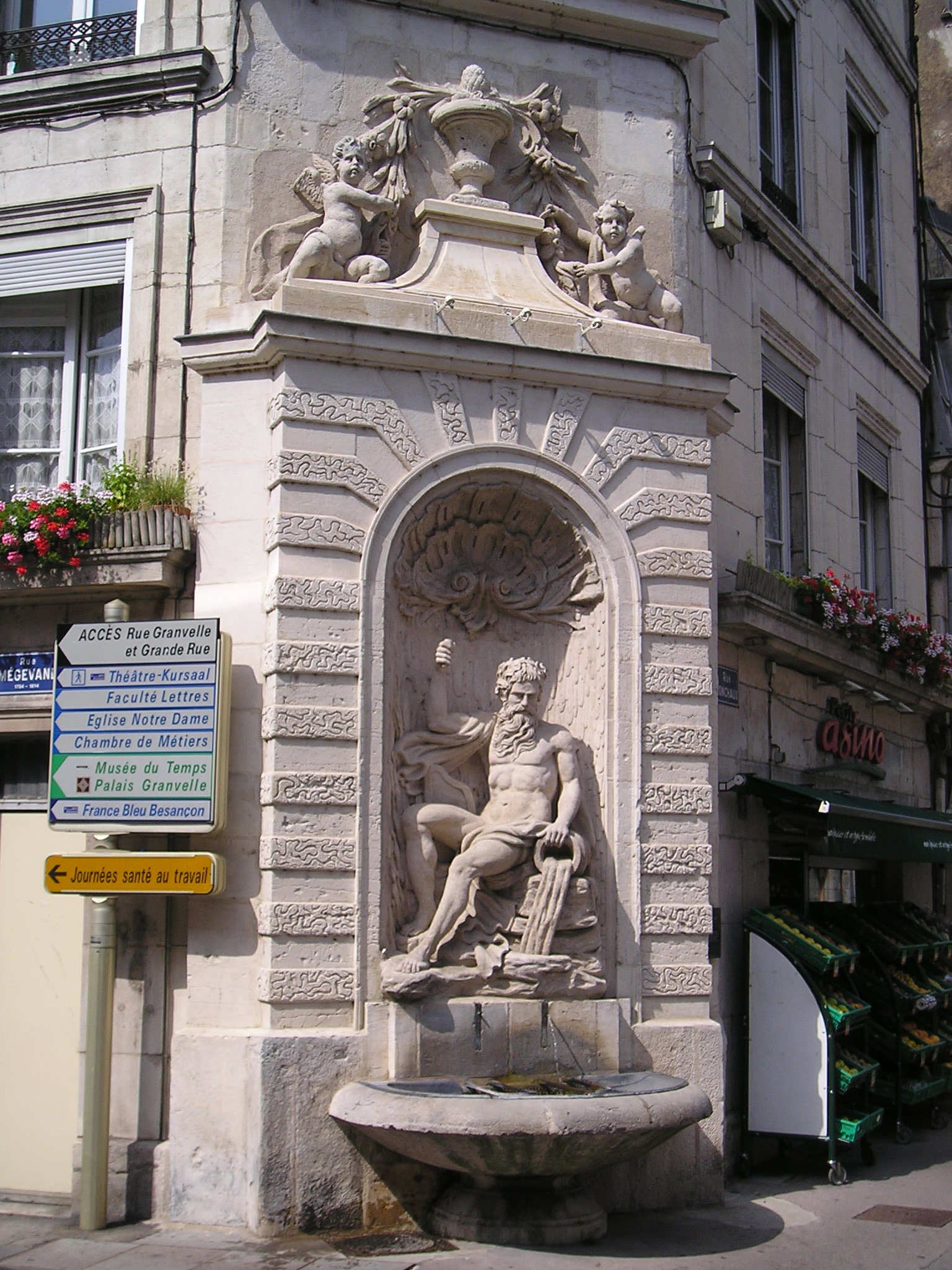 Fontaine du Doubs in Besançon, France